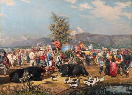 "Market grapes in Evksinograd near Varna" (1894)